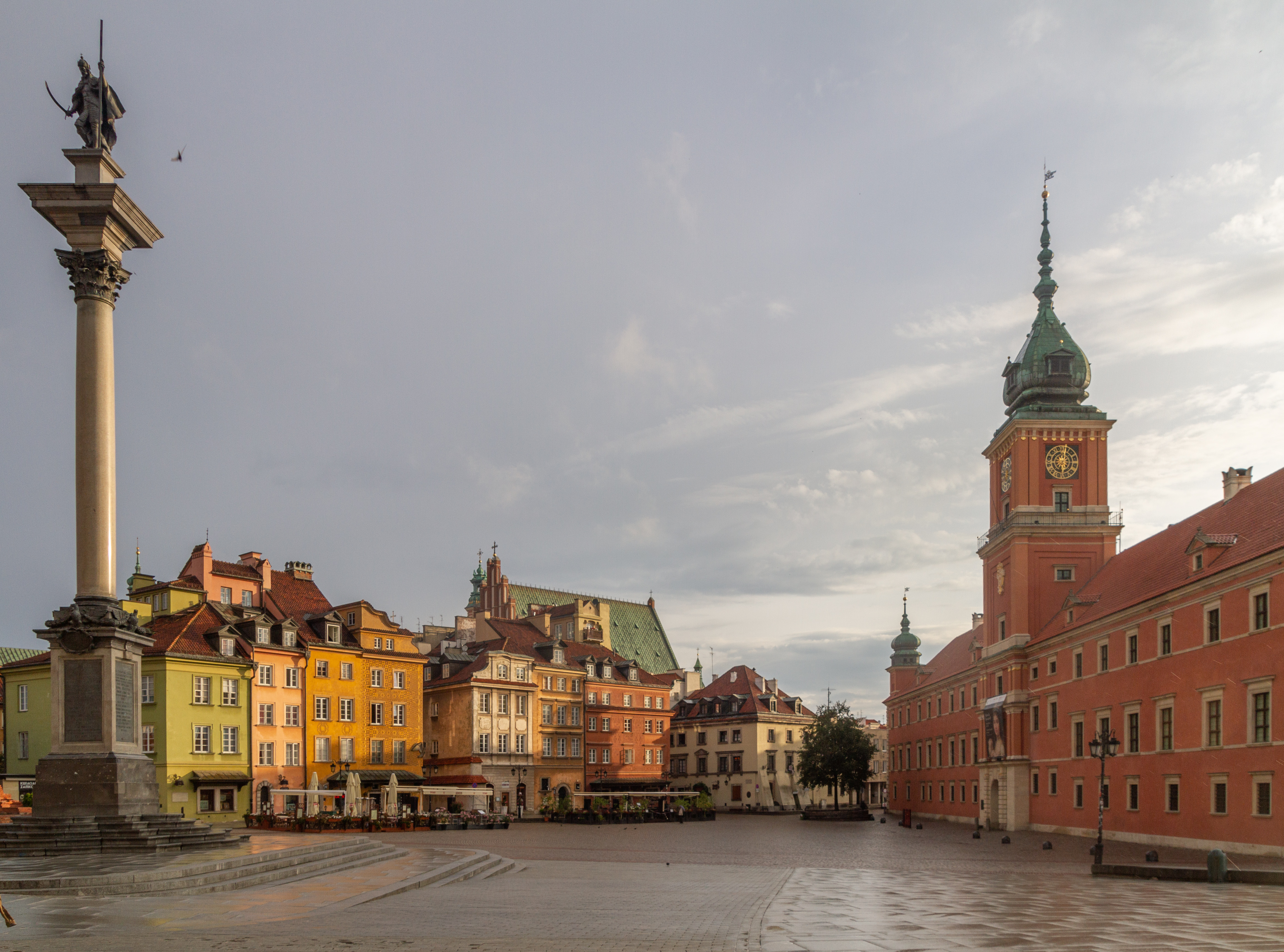 Castle Square in Warsaw